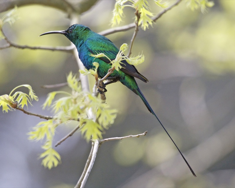 A male Malachite Sunbird at Moore's End, a proteus farm near Stellenboch, South Africa.